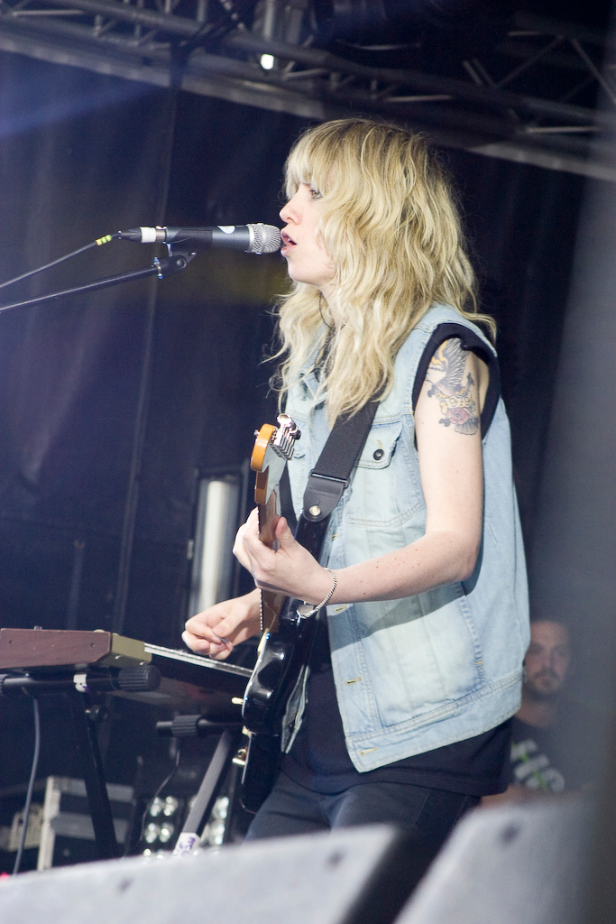 This photo was taken on May 25, 2009 in Quayside, Newcastle upon Tyne, England, GB, using a Canon EOS 300D Digital.